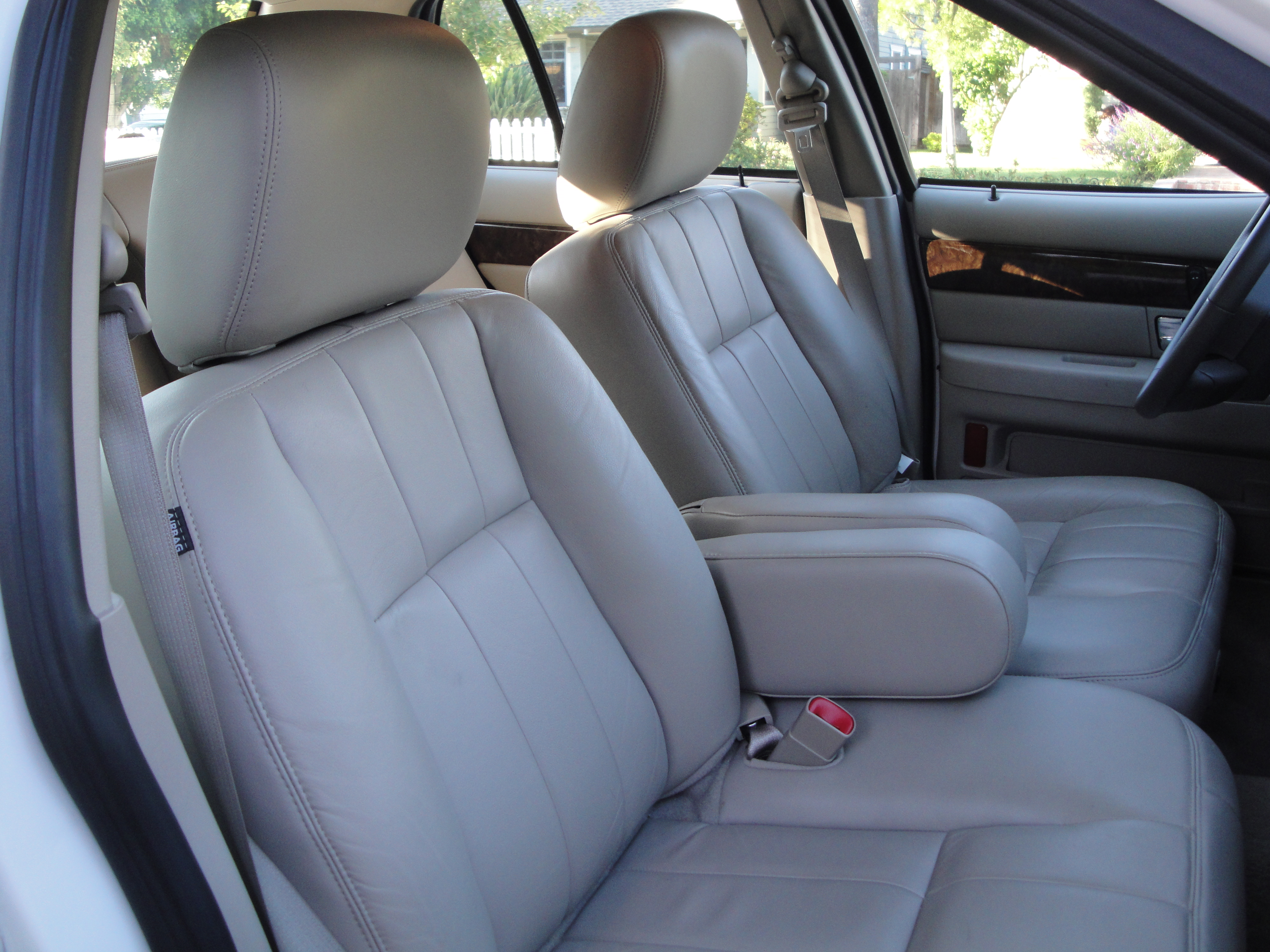 11 Mercury Grand Marquis